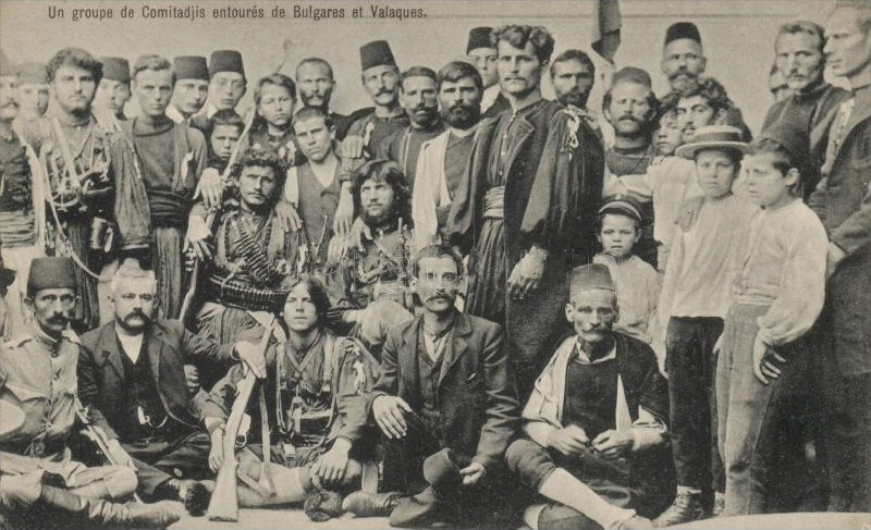 Bulgarian and vlach komitajis